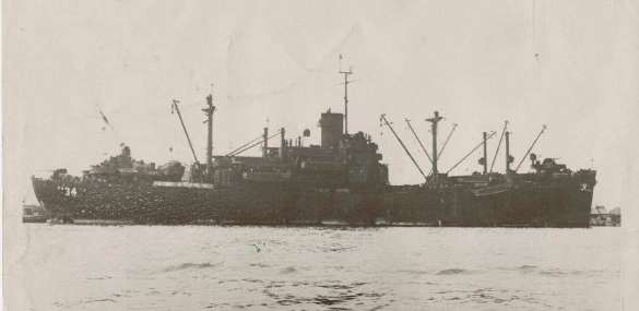 Photo of the USS Bolivar (APA-34) taken around 1944.